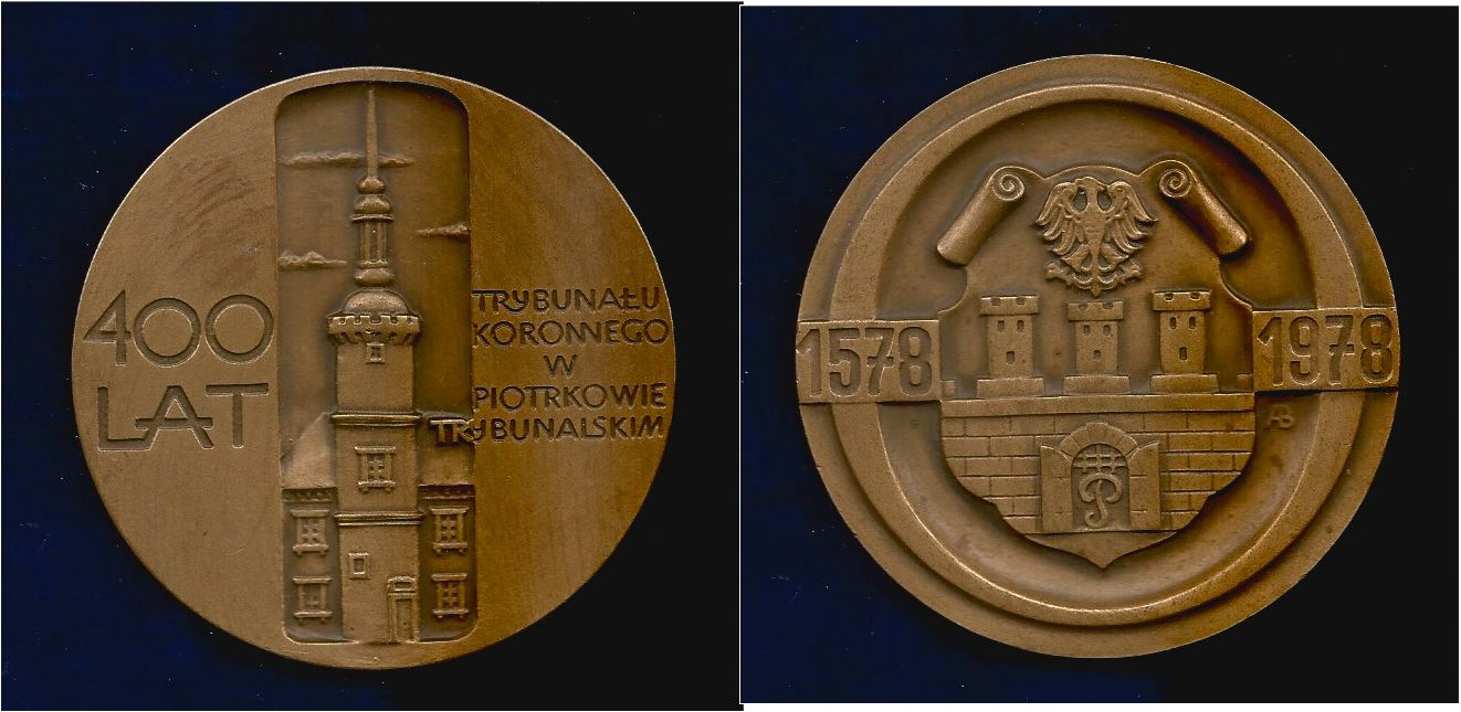 Bronze, d. = 70 mm 400th anniversary of the Royal Tribunal, then the highest court of Poland at Piotrkow Trybunalski. Tower in front of building, l. 2 lines: "400 LAT", r. 5 lines: "TRYBUNALU KORONNEGO W PIOTRKOWIE TRYBUNALSKIM"/ Dates 1578 and 1978 divided by shield. Medallist: AB Condition: Perfect UNCIRCULATED. In original box of issue.